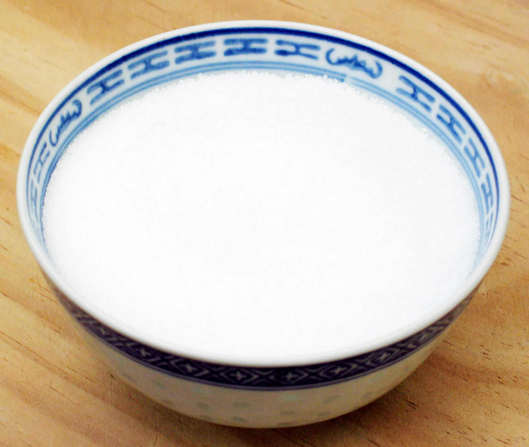 This is a bowl of white sugar.